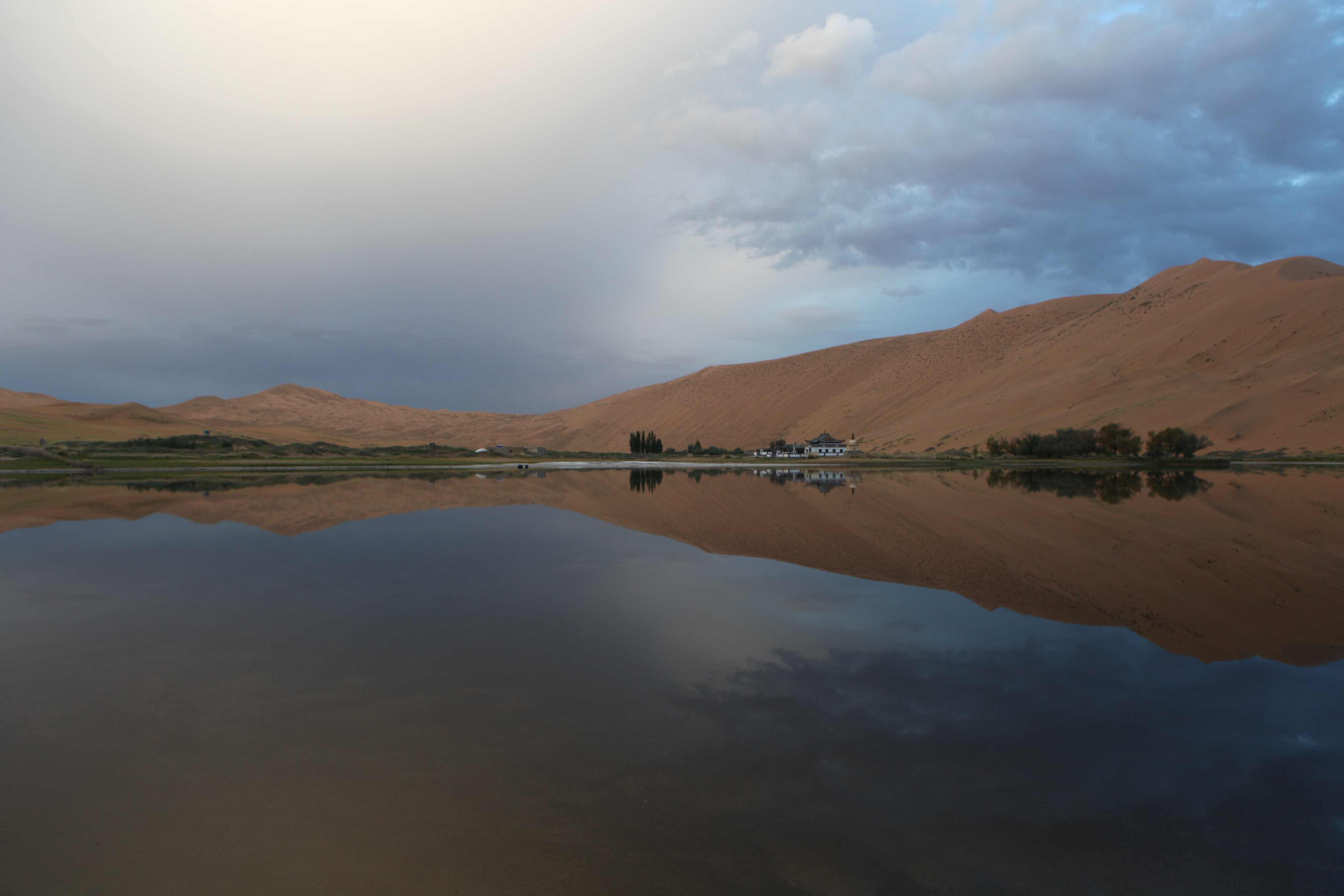 Sunrise above the Badain Jaran Temple and its adjacent lake.